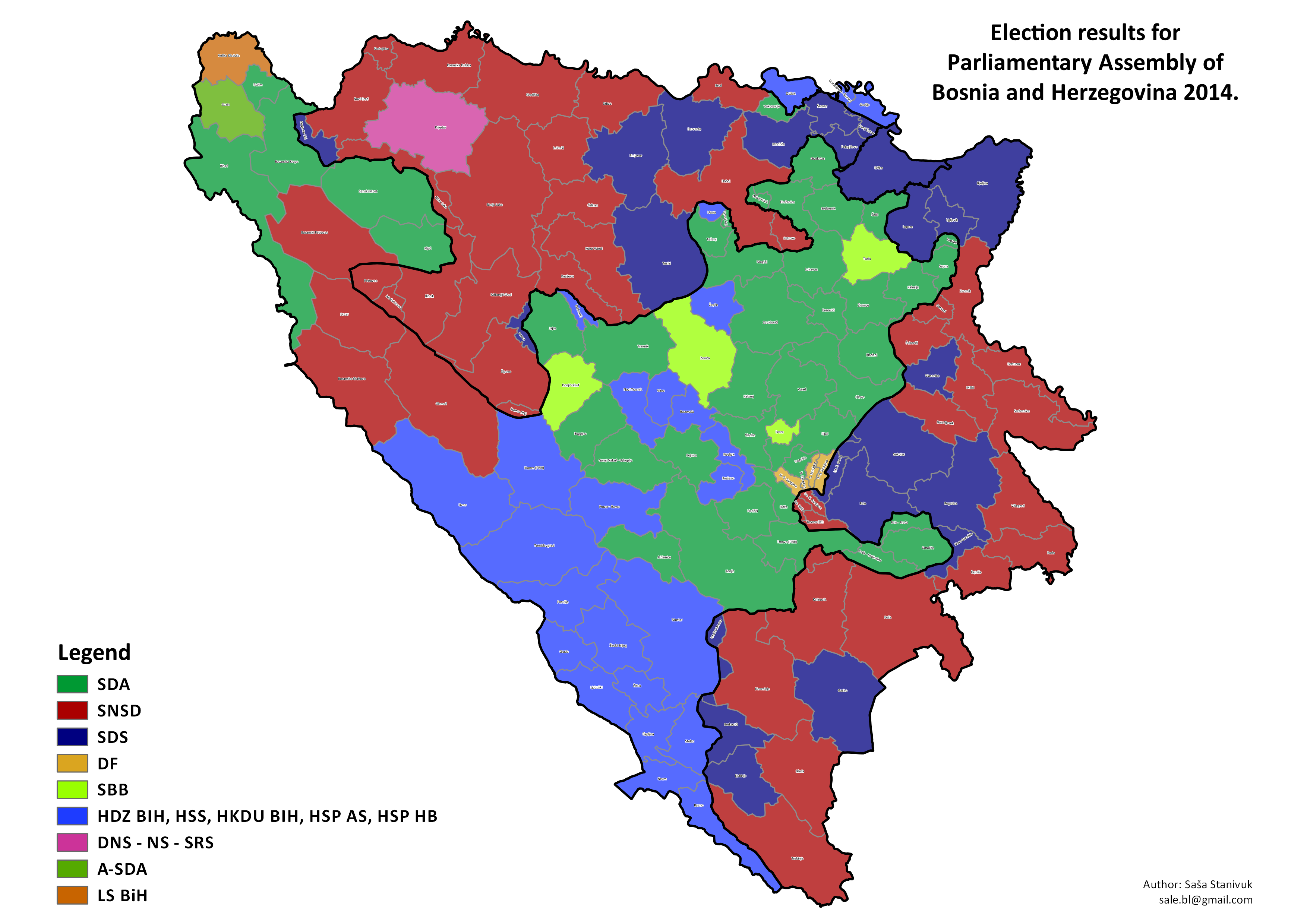 Bosnia and Herzegovina, parliamentary election map, 2014